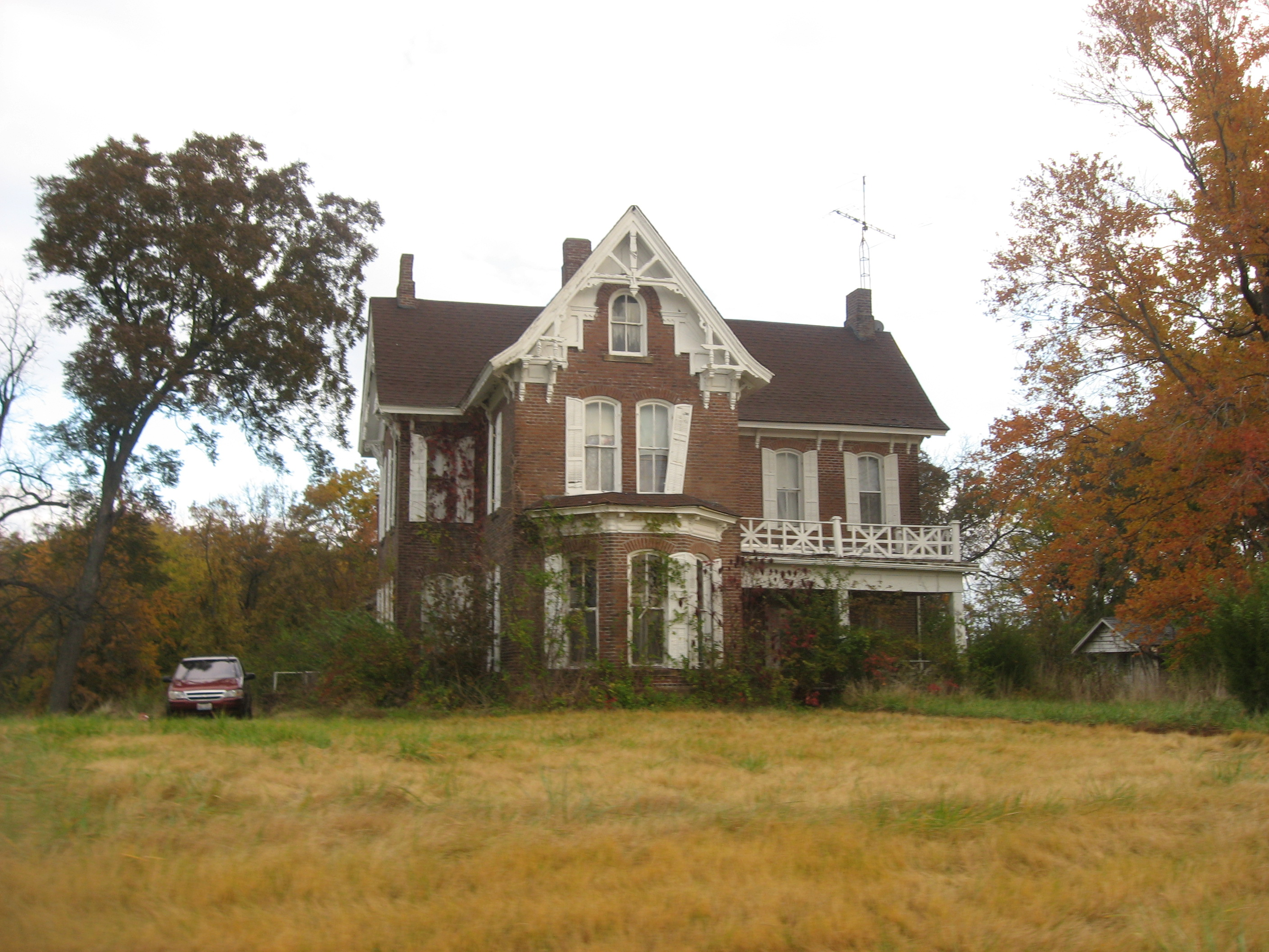 Front and western side of the C. H. Judd House, located on the northern side of Ina Road south of Belle Rive in Moore's Prairie Township, Jefferson County, Illinois, United States. Built in 1881, it is listed on the National Register of Historic Places.